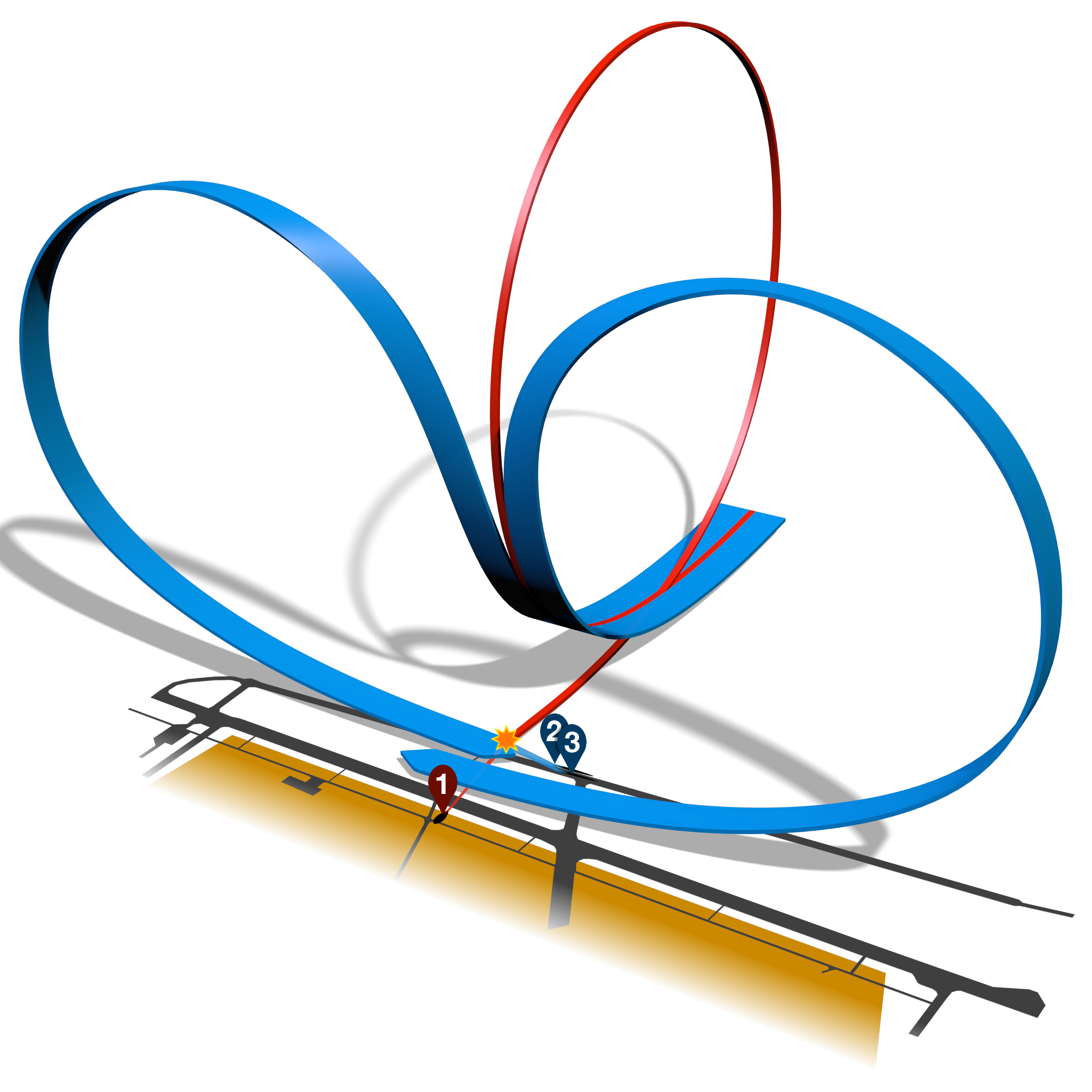 Diagram of the Ramstein airshow disaster, made in Blender and Gimp, based on different sources (videos, graphics, photos). Numbers indicate crash positions of the individual aircraft involved in the collision.